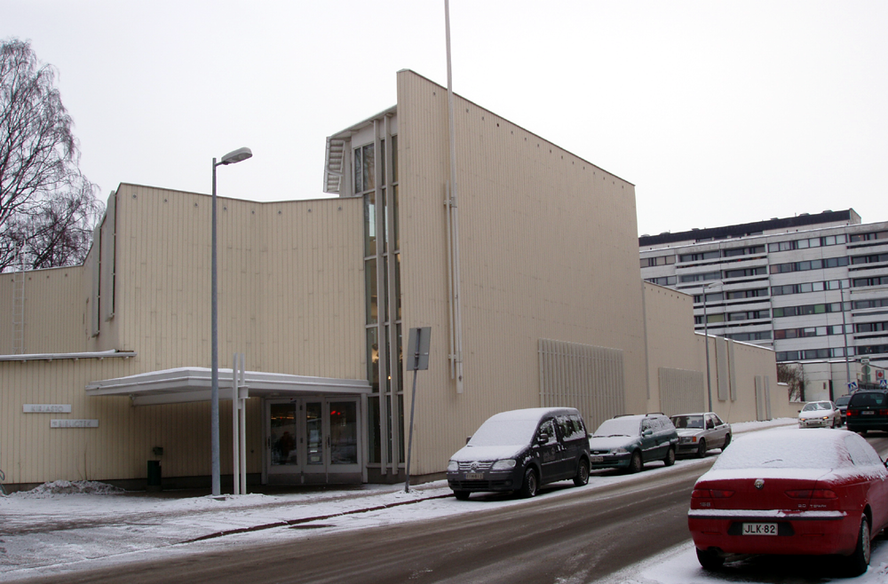 Vallila Library (1996), Helsinki, Finland, by architect Juha Leiviskä